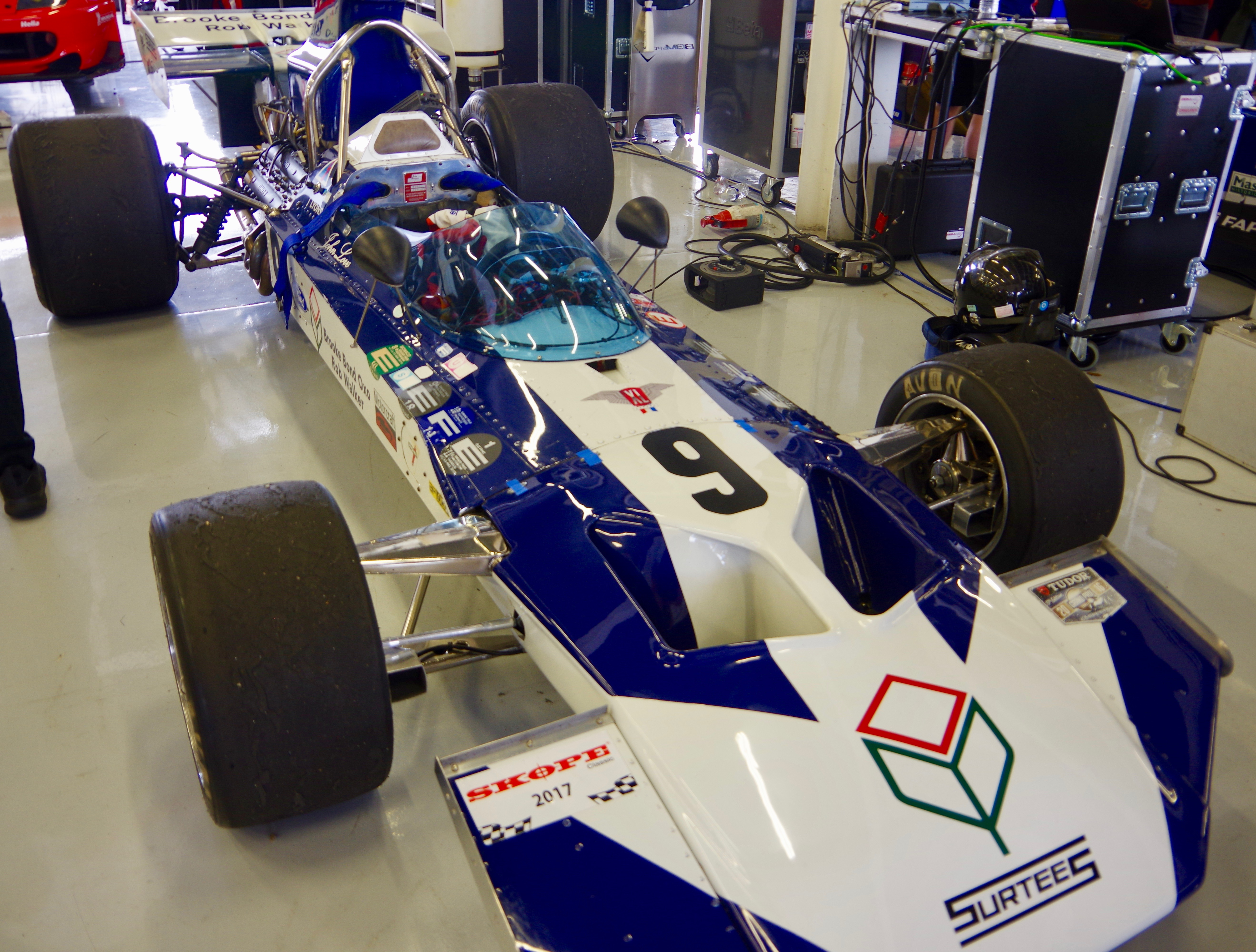 John Love 1971 Surtees TS9 2019 Silverstone Classic.